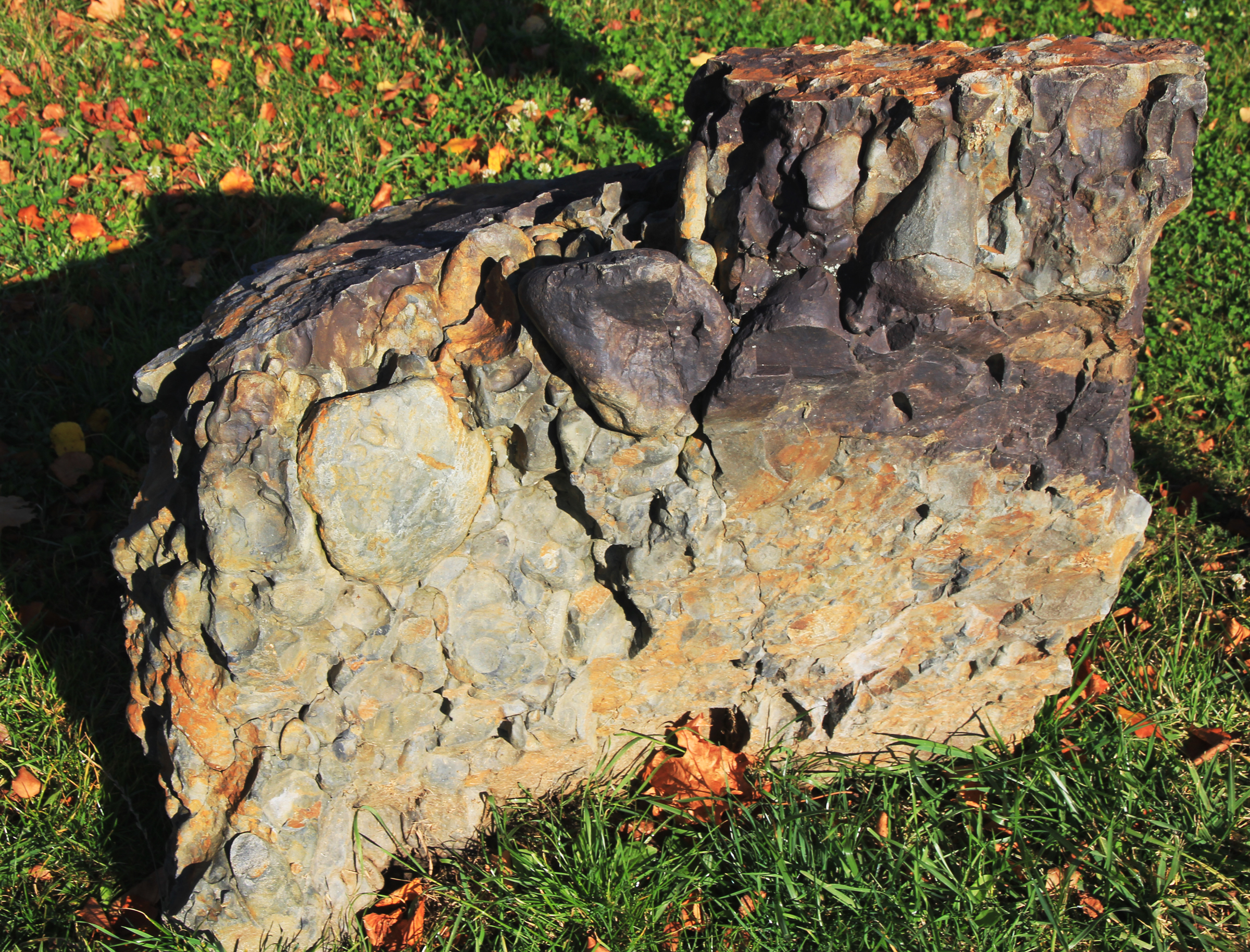 Sample of conglomerate from Modřany Gully in small geopark “Geologická zahrada” in Dolní Počernice, Prague, Czech Republic